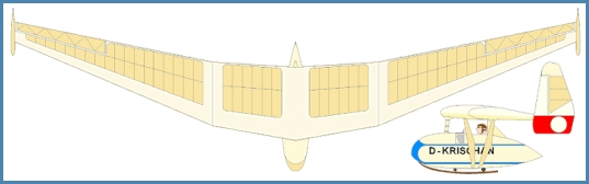 Beyer Krischan Flying Wing